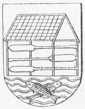 Coat of arms of Århus, a chartered town in Denmark, 1672 version. Supporters not included. Illustration from the article Om danske By- og Herredsvaaben written by Anders Thiset and published in Tidsskrift for Kunstindustri 1893-1894.